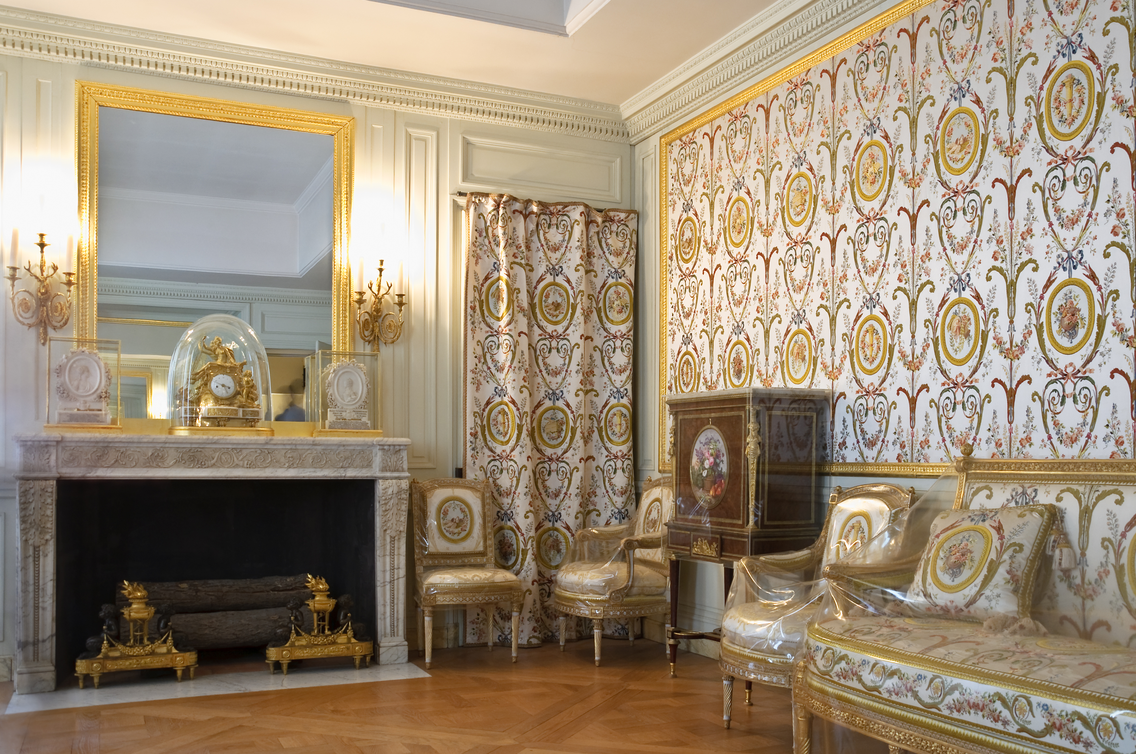 Palace of Versailles - Petit appartement de la reine - Billiard room of Marie-Antoinette Lampas brocaded with silk and chenille on a satin background, rewoven for the billiard room of the petit appartement of Marie-Antoinette at Versailles. Firstly designed in 1779 by Jacques Gondoin for the winter furnishings of the inner cabinet of Marie-Antoinette at Versailles .